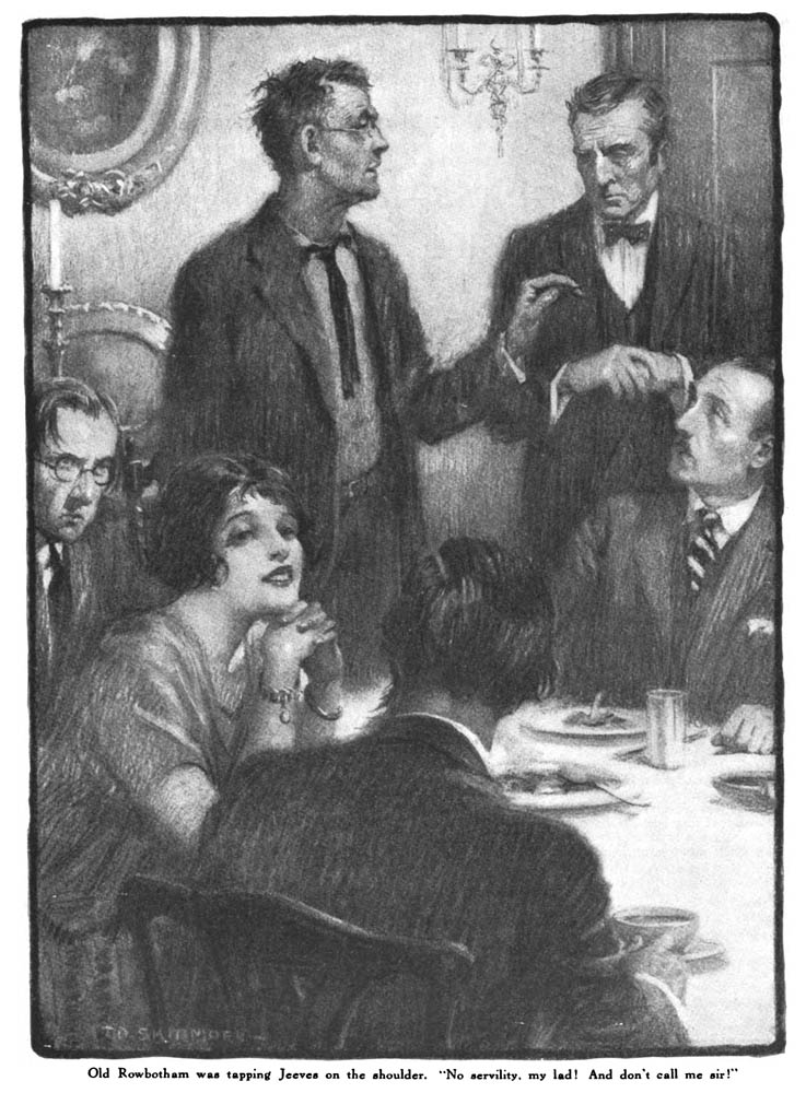 Cosmopolitan illustration by T. D. Skidmore of the P. G. Wodehouse short story "Comrade Bingo" featuring Jeeves